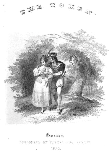 Illustration from: The Token. Edited by S.G. Goodrich. Boston: 1830.